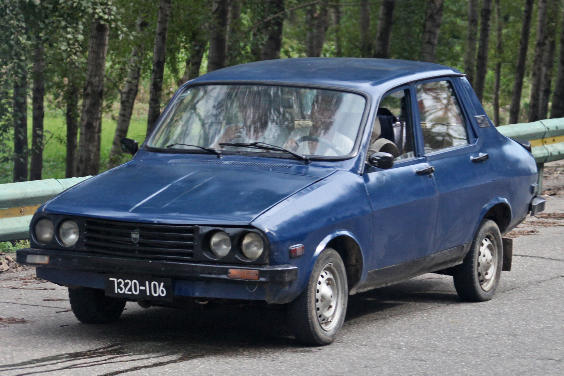 The North Korean car market is limited and you can see many cars from East Europe. When the vehicles have black on white plates, they are state owned vehicle.